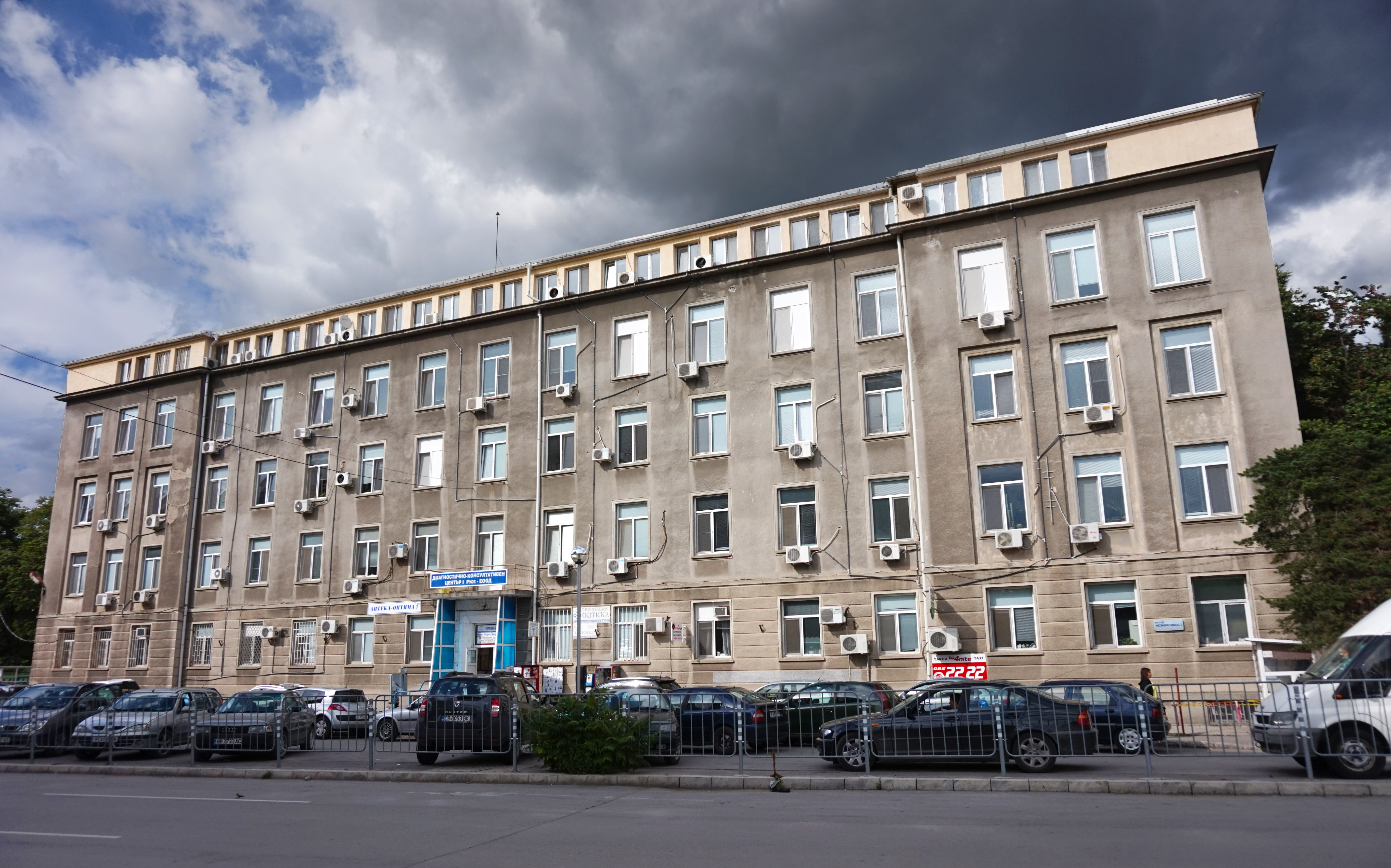 Diagnosis-consulting centre-1 in Rousse, Bulgaria.This photograph was taken with a Sony ILCE-5000